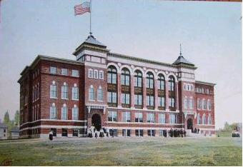 My copy of a 1908 postmarked postcard of the Jordan School in Lewiston Maine, published NO. 7143. THE METROPOLITAN NEWS CO., BOSTON, MASSACHUSETTS AND GERMANY.